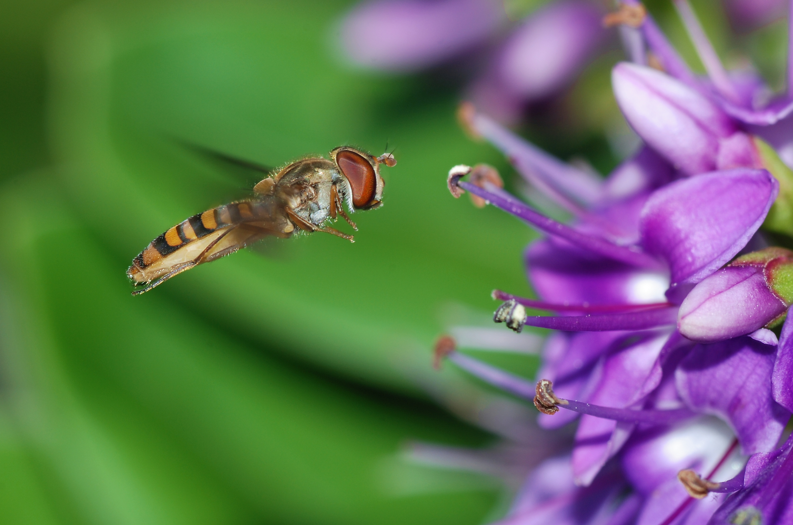 A Marmelade fly (Episyrphus balteatus) on flight.